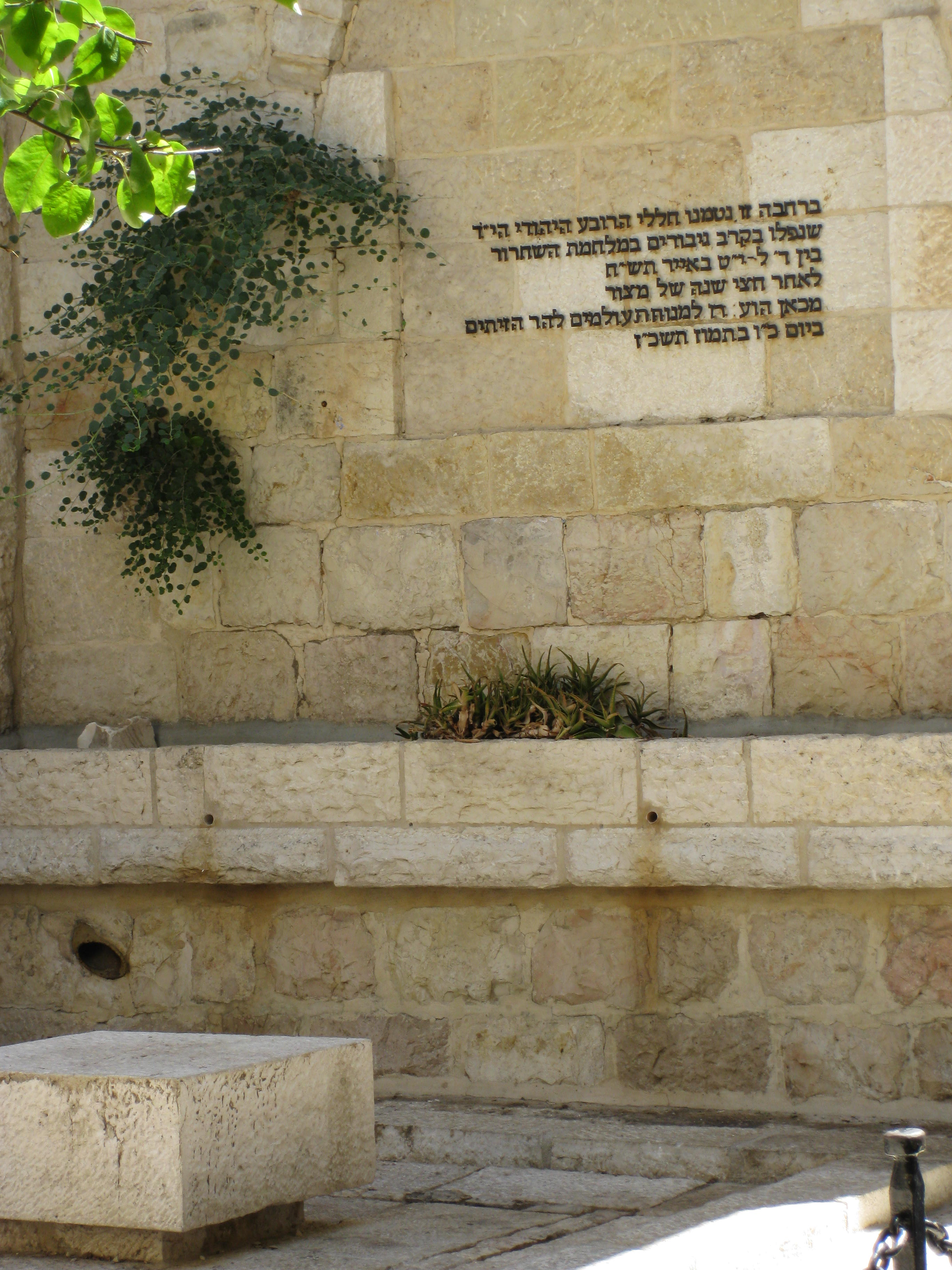 Communal grave of the Jewish Quater fighters in 1948 in Batey Mahase Sqaure, Gal'ed (aka Ha-Galed) street.